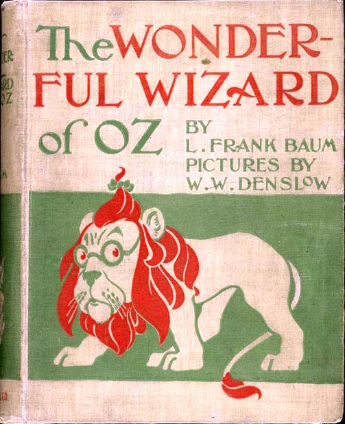 1900 front cover, George M. Hill, Chicago, New York.